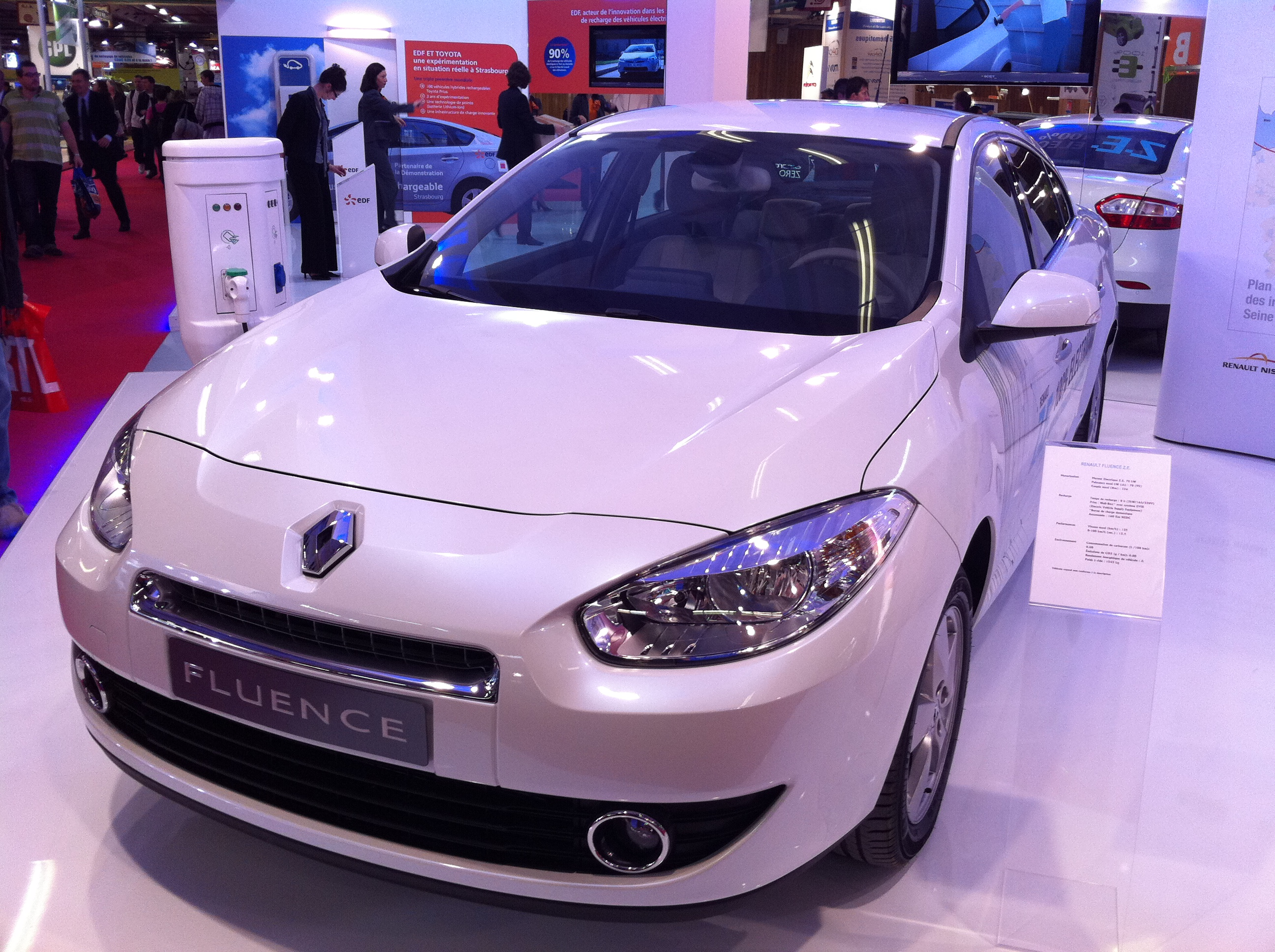 A Renault Fluence Z.E. electric sedan at the 2010 Paris Motor Show.